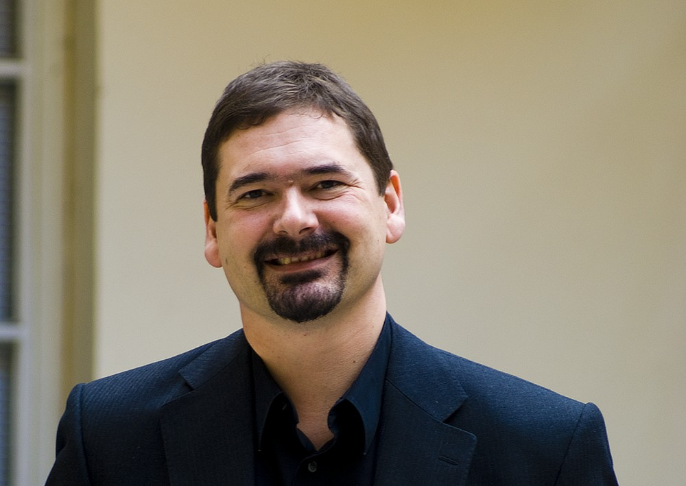 Jon Stephenson von Tetzchner, Opera Software co-founder and CEO (Jan 2008)